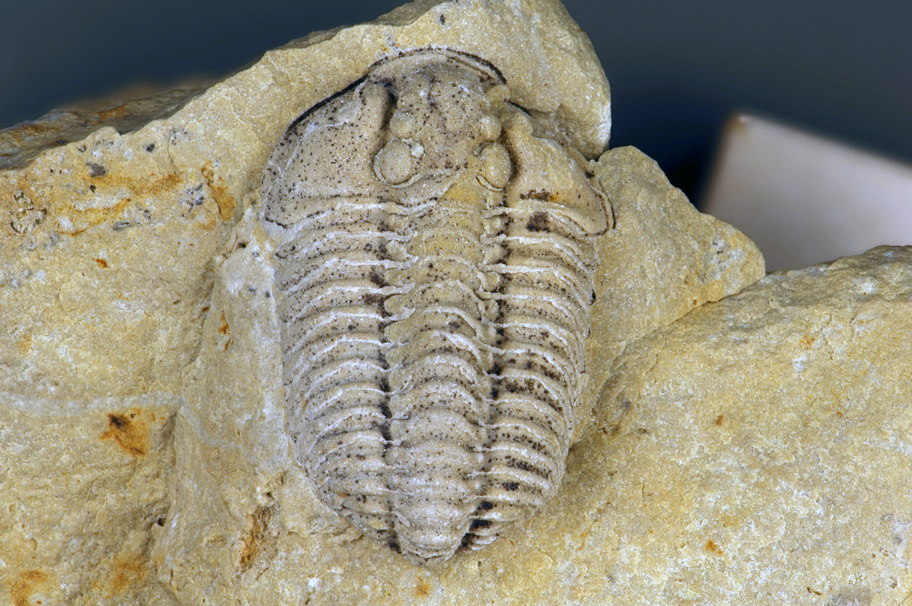 Many fossils of shelly organisms (e.g., bivalves, gastropods, brachiopods, cephalopods) have had the original hard parts dissolved away. In such cases, the fossil itself is an impression of the outside of the shell (external mold) or an impression of the inside of the shell (internal mold). Sthenarocalymene celebra (Arthropoda, Trilobita, Polymerida, Calymenidae) - this fossil calymenid trilobite specimen is a nice example of dissolution. The trilobite is preserved as an internal mold in Silurian dolostone from southwestern Ohio, USA. Most trilobites found in dolostones are similarly preserved. This trilobite is Sthenarocalymene celebra (Raymond, 1916). Over the years, trilobitologists haven’t agreed on the proper generic assignment for celebra. The species has been variously assigned to the genera Calymene, Gravicalymene, Flexicalymene, and Sthenarocalymene.Stratigraphy: Cedarville Dolomite, upper Lockport Group, upper Niagaran Series (= upper Wenlockian Series), upper Middle Silurian